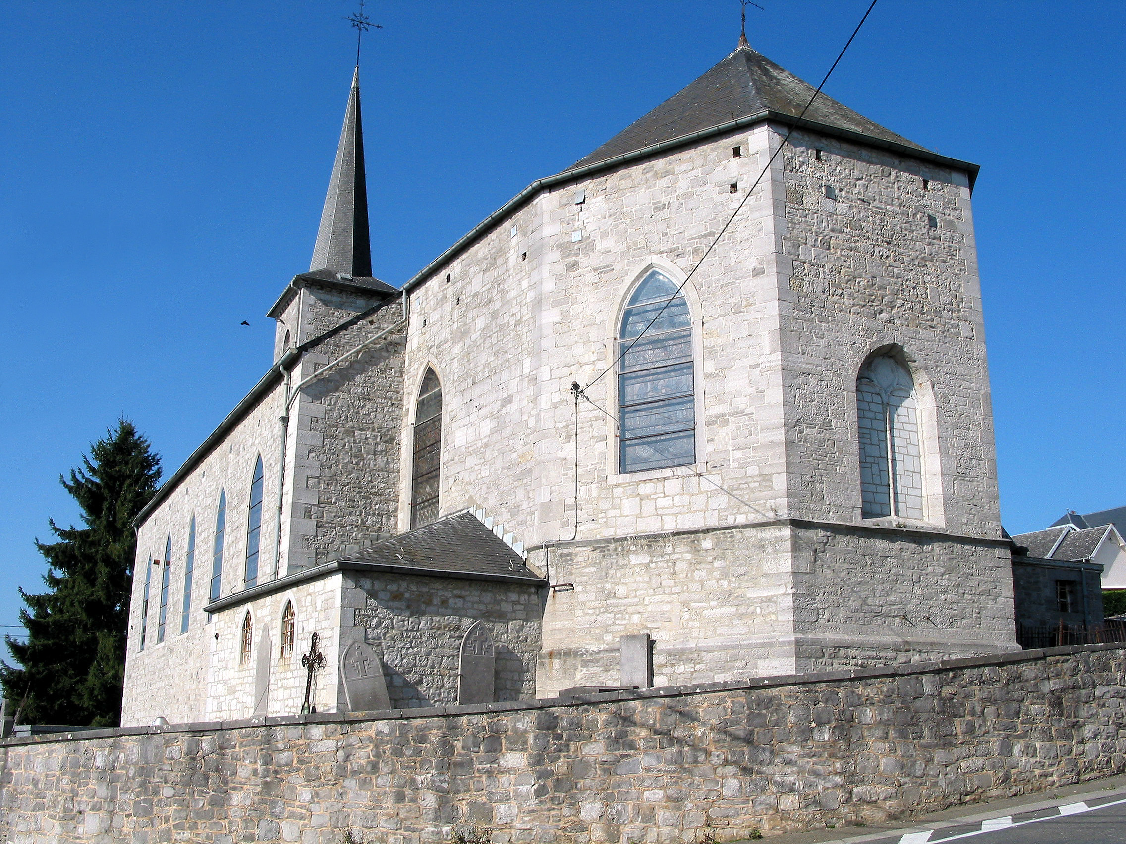 Onhaye (Belgium), the Saint Martin’s church (1808).